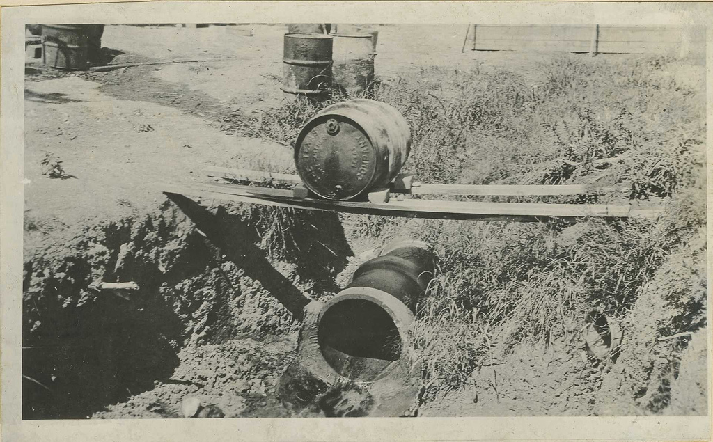 Mosquito control. Oil drip at storm sewer. Kelly Field, Texas. Possibly World War 1. (Ref Army Medical Museum : Reeve031411).